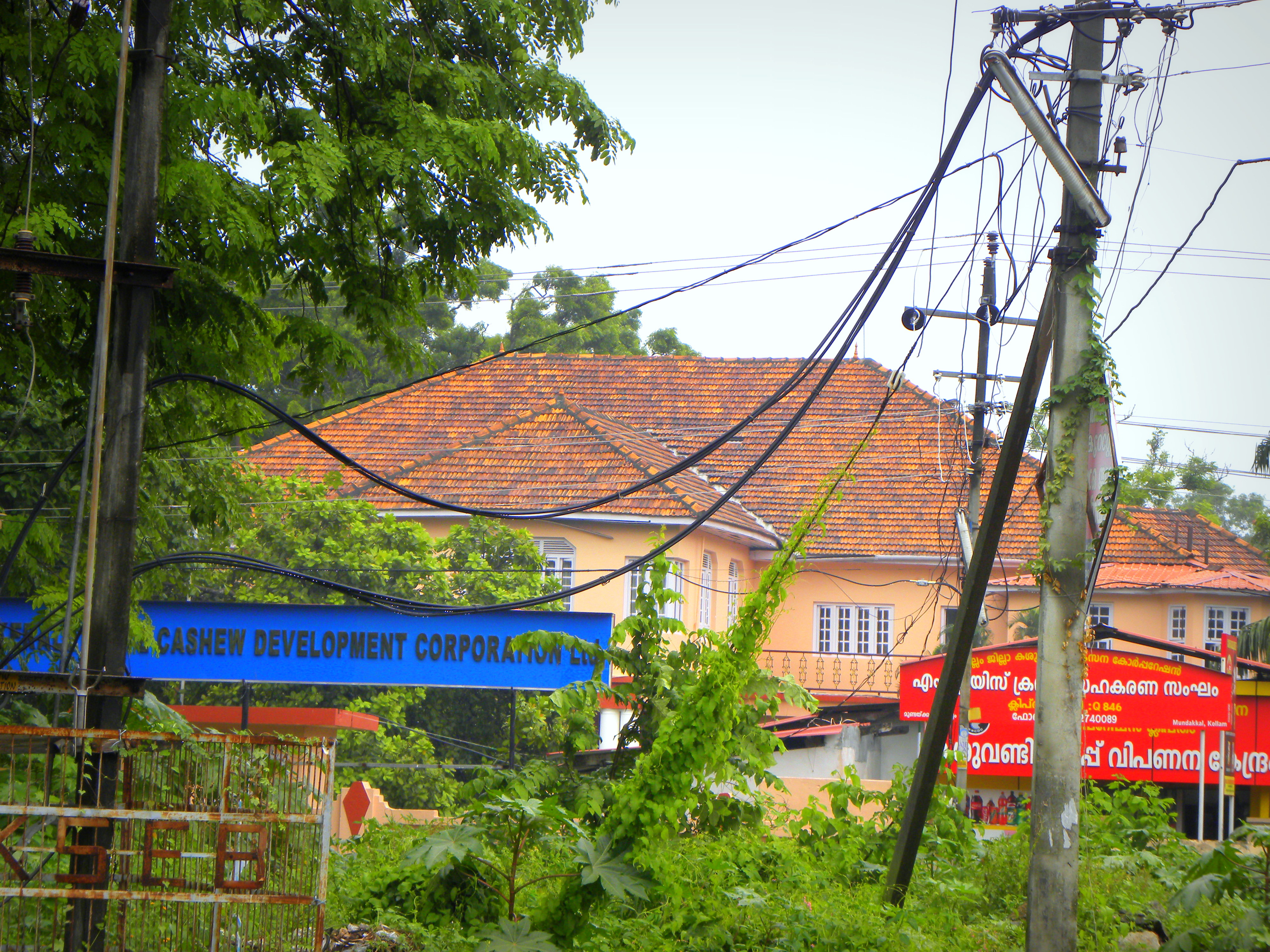 Cashew House in Kollam - This is a historic building in Kollam, currently serving as the headquarters of Kerala State Cashew Development Corporation Limited